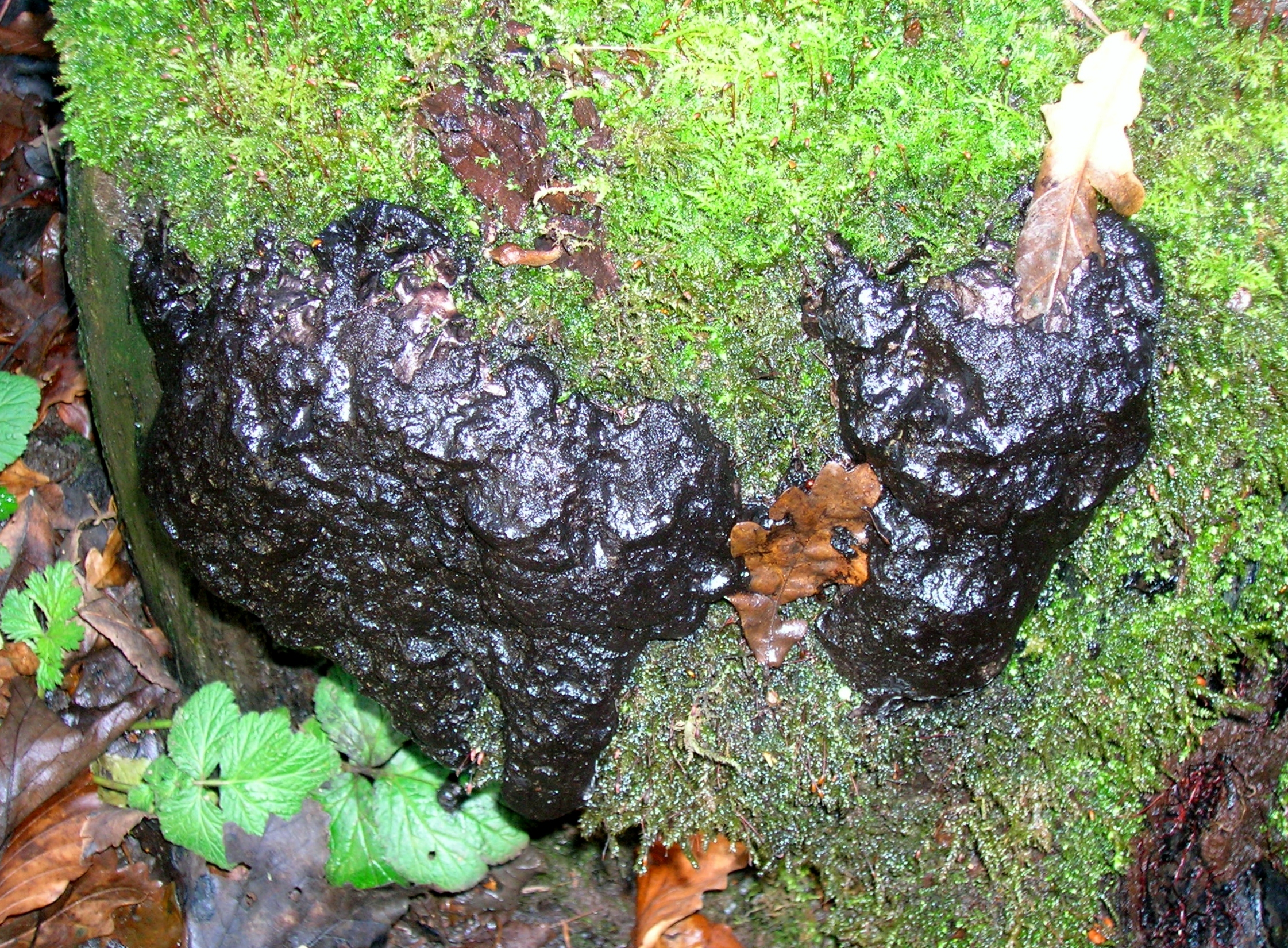 Brefeldia maxima sporulating phase, Spier's, North Ayrshire, Scotland.